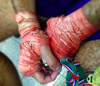 Bloody Lethwei hand wraps after 2016 Myanmar Lethwei World Championship.